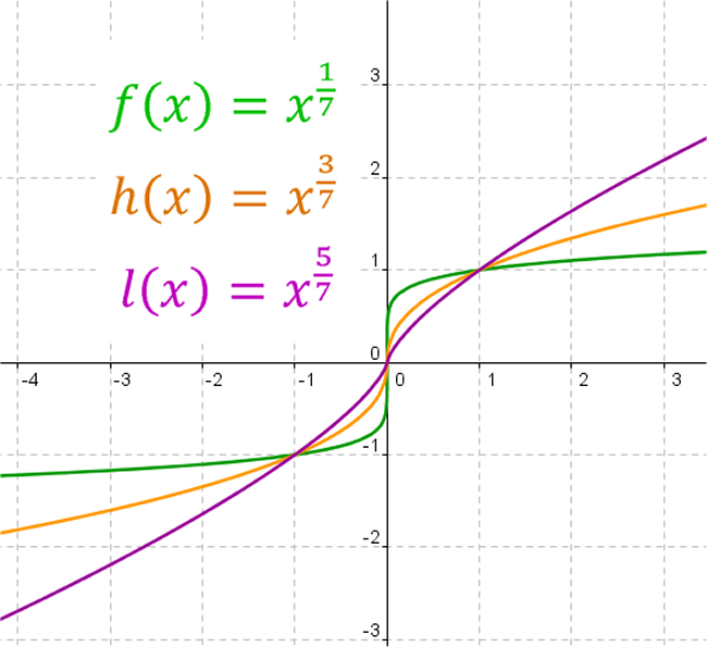 All uneven roots of 7